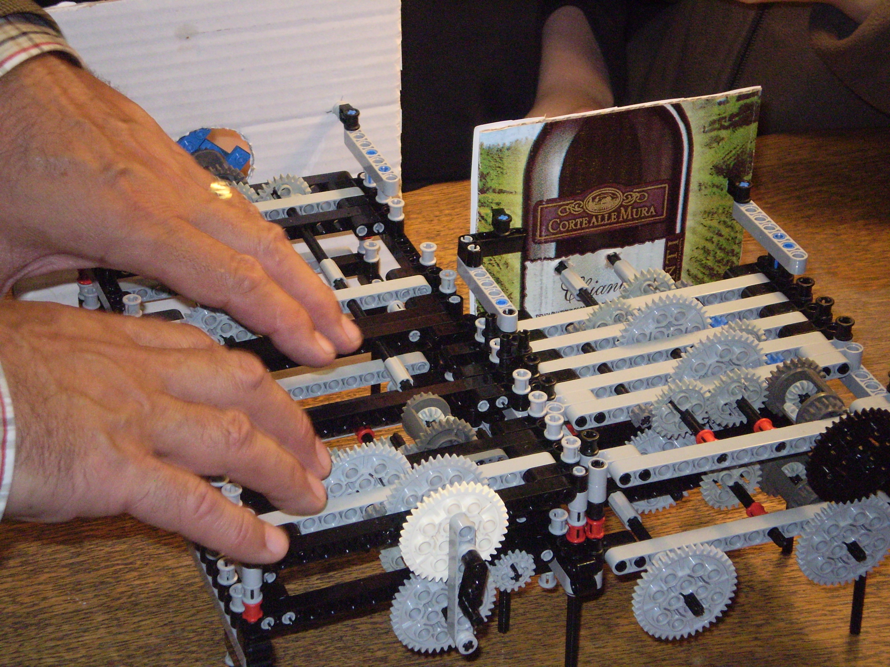 Lego Antikythera Mechanism at an open day at Nicolaus Copernicus Astronomical Center, for the 15th Warsaw Science Festival.